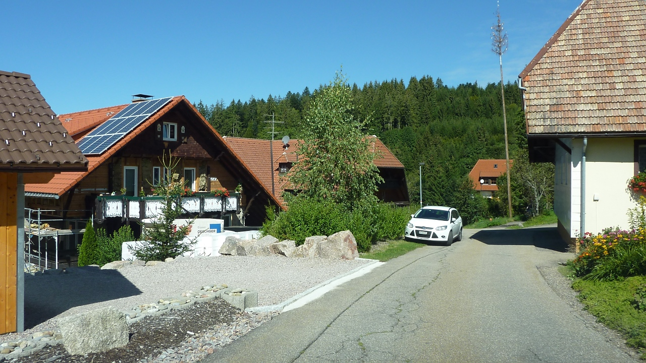 Black Forest, Herrischried - Hogschür, Kirchholzstrasse